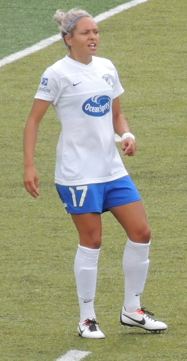 Kyah Simon, soccer player; 2013-06-09 Chicago Red Stars vs Boston Breakers